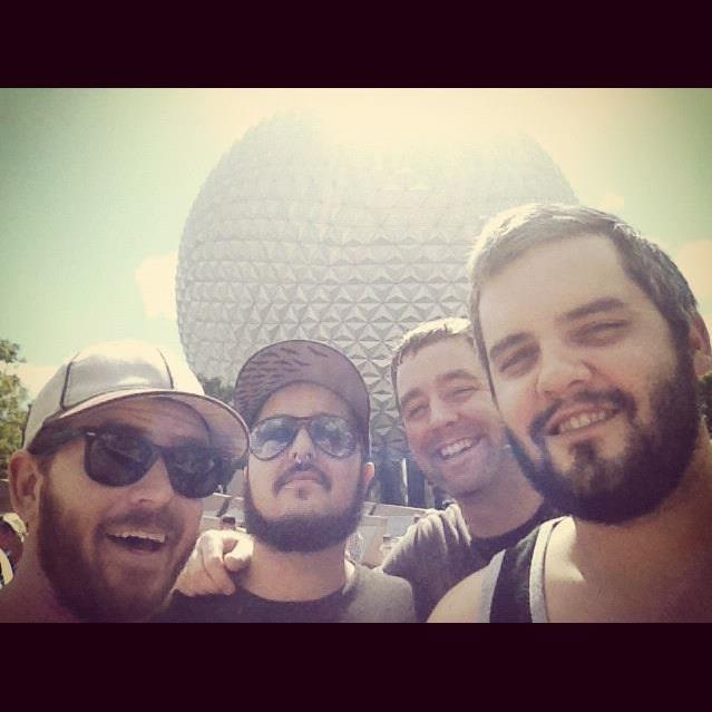 4 Dudes